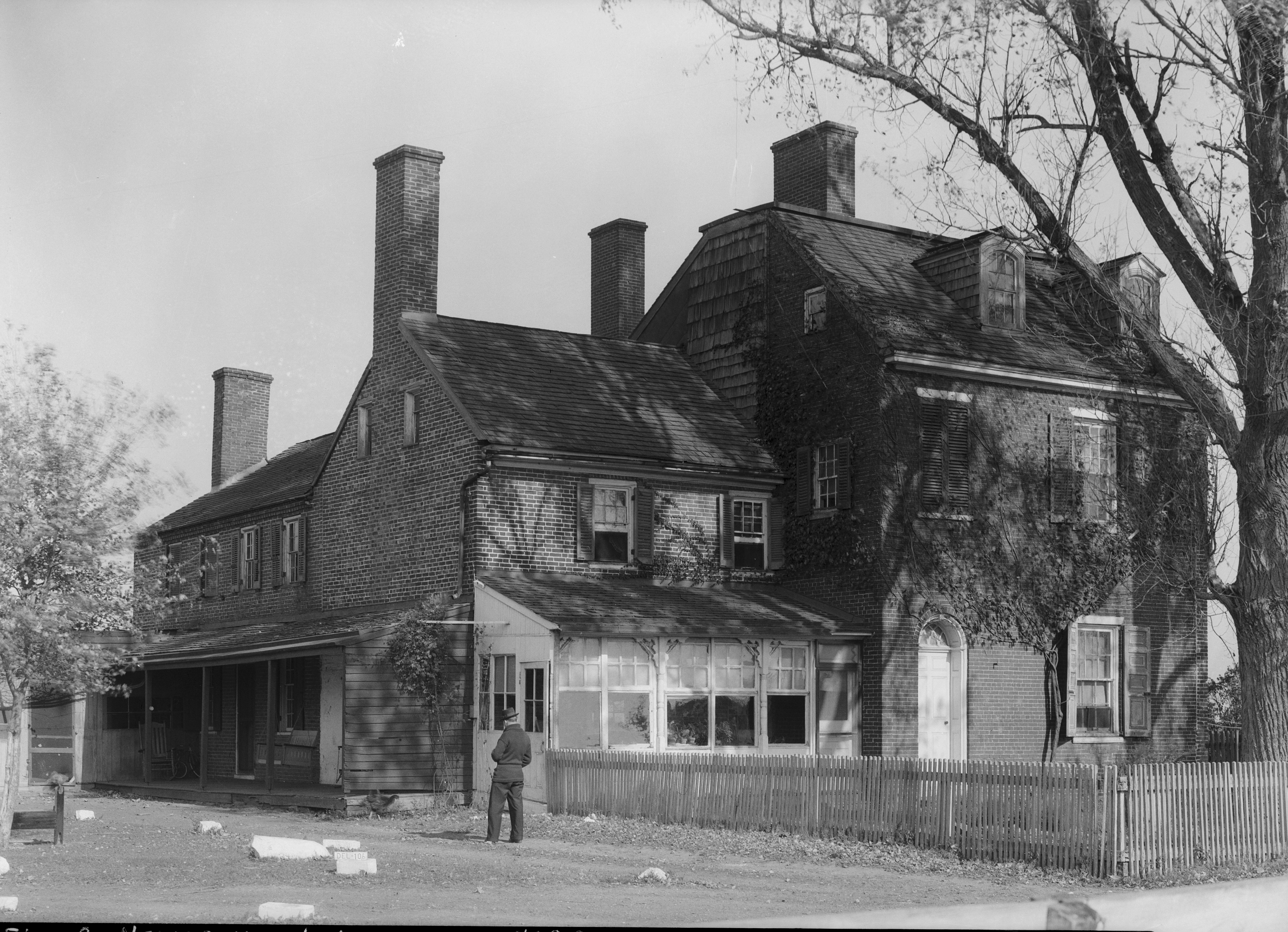 Historic American Buildings Survey W. S. Stewart, Photographer Oct. 29, 1936 EXTERIOR FROM WEST - The Hermitage, Route 273, New Castle, New Castle County, DE